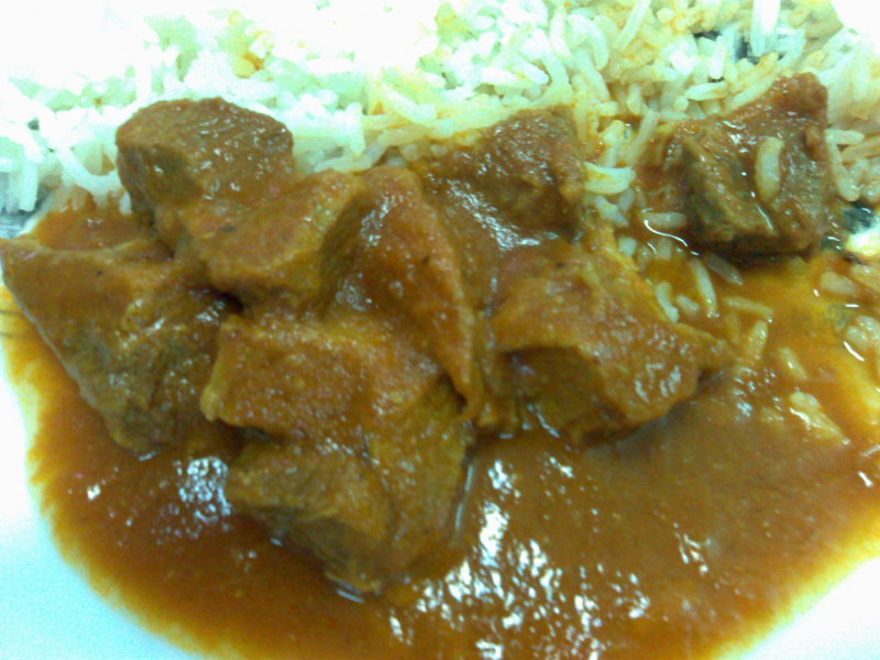 Balchão de porco (Pork Balchão), a dish from Goa.